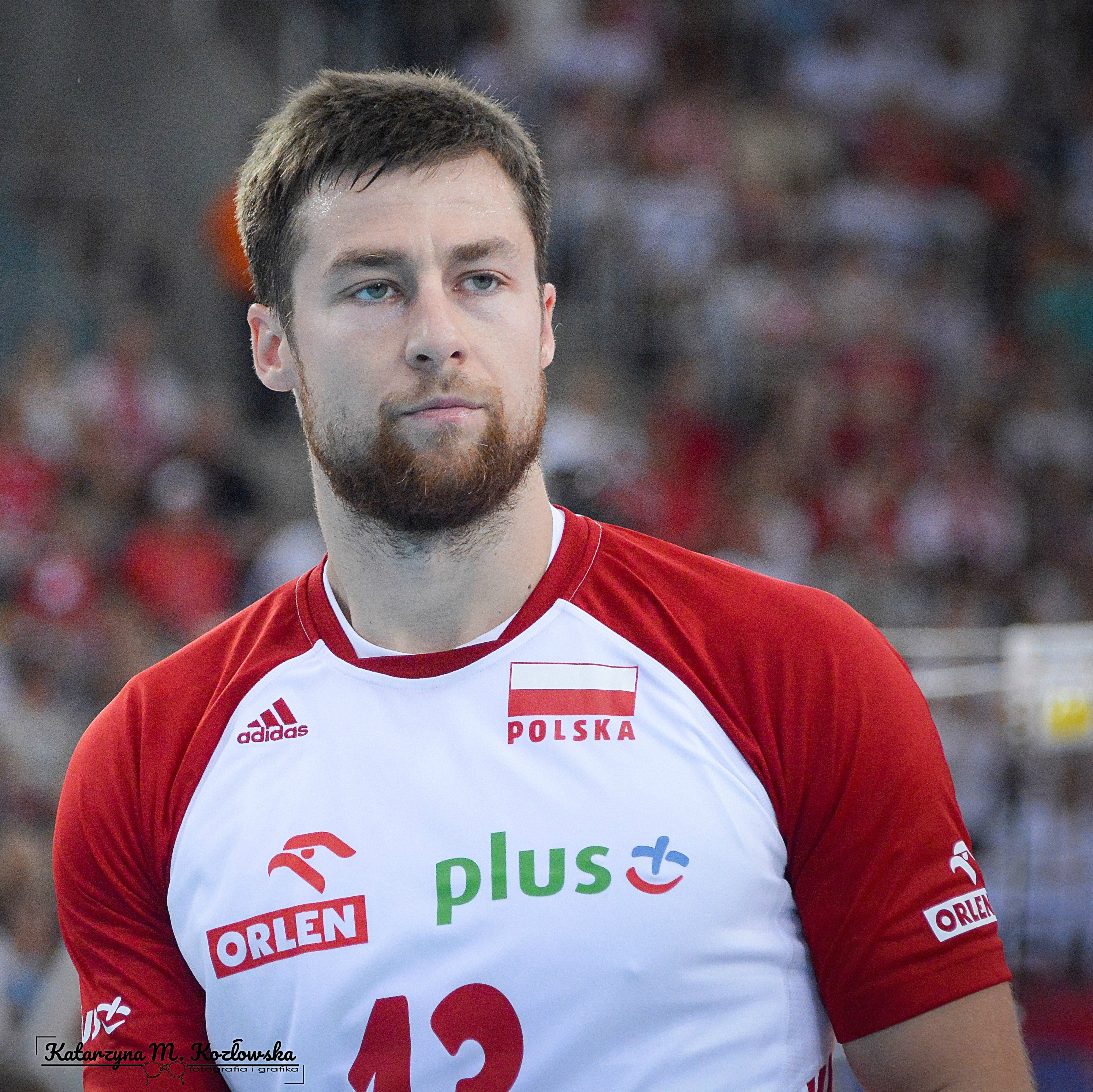 Michał Kubiak, a volleyball player from Poland. Volleyball Nations League: Poland - France.